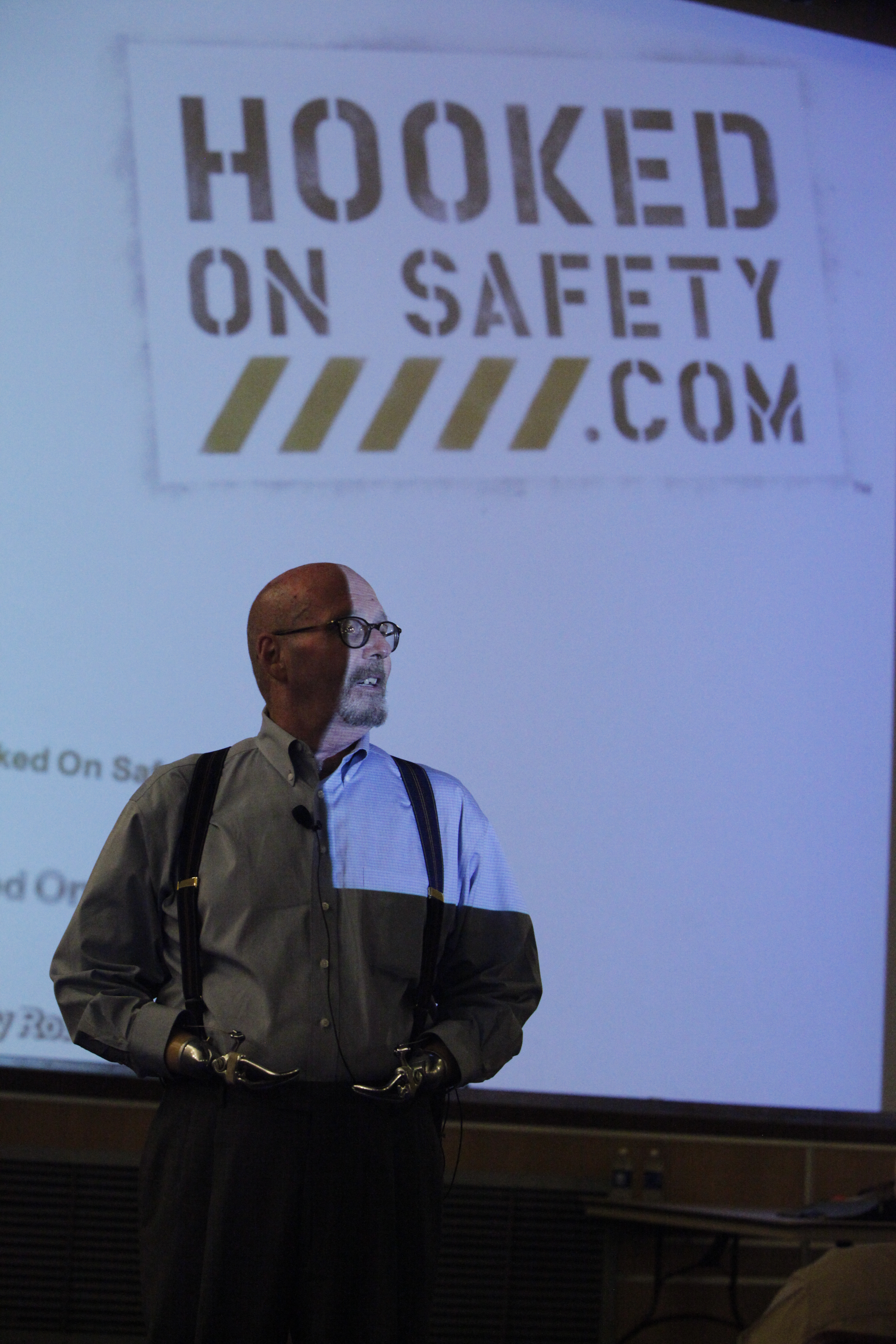 Billy Robbins, a world-renowned motivational speaker and Marine Vietnam veteran, speaks to Cherry Point Marines at the air station theater, Sept. 7. Robbins lost both hands in a workplace accident in December 1980 and has since used his experience to motivate people to make safety a priority. "You can't let your emotions dictate your life," said Robbins. “Attitudes need to change. You have to be motivated or risk complacency."